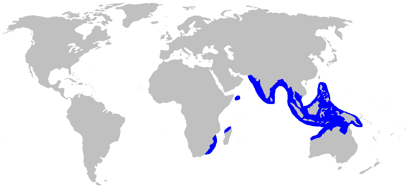 Range of the Jenkins' whipray (Himantura jenkinsii), based on Last and Stevens (2009).